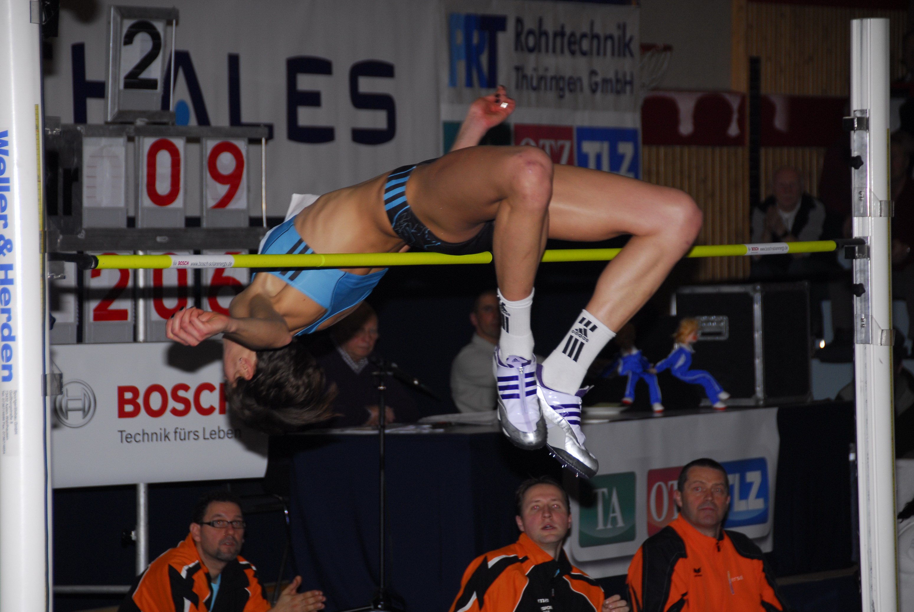 Blanka Vlašić World leading 2010 - Third best indoor jump ever 2.06m Arnstadt (DE) 06 Feb 2010